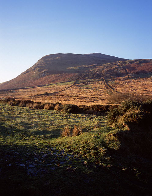 North Barrule. Looking west from The Hibernian.